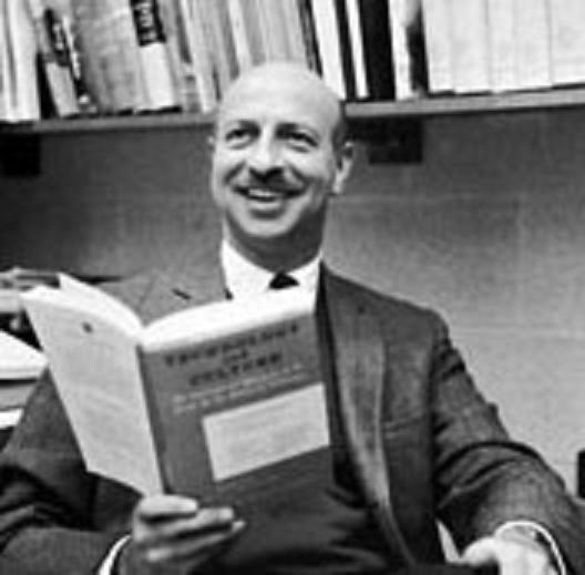 Portret of Melvin Kranzberg